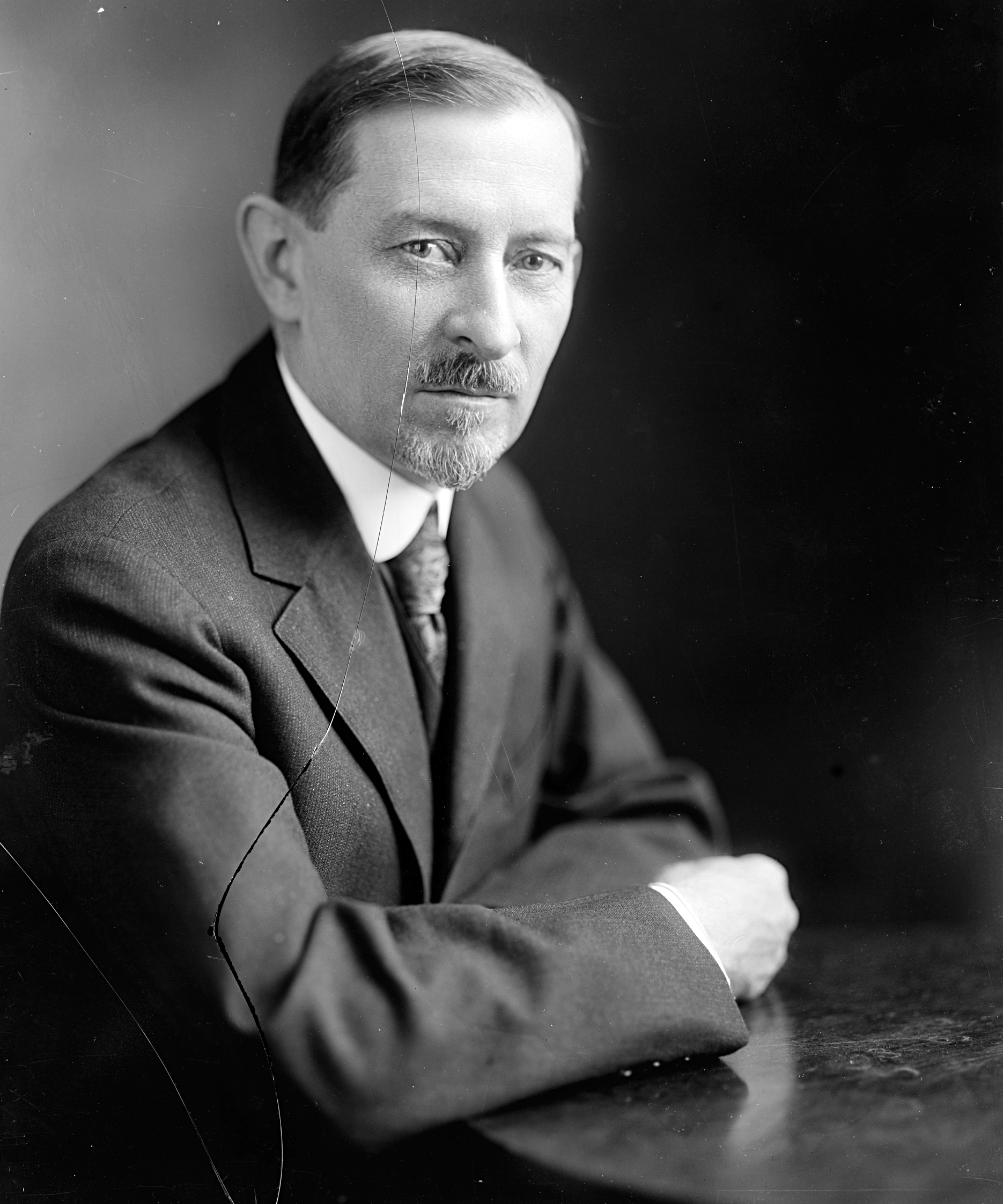 Edward Schroeder Brooks, US Representative from Pennsylvania